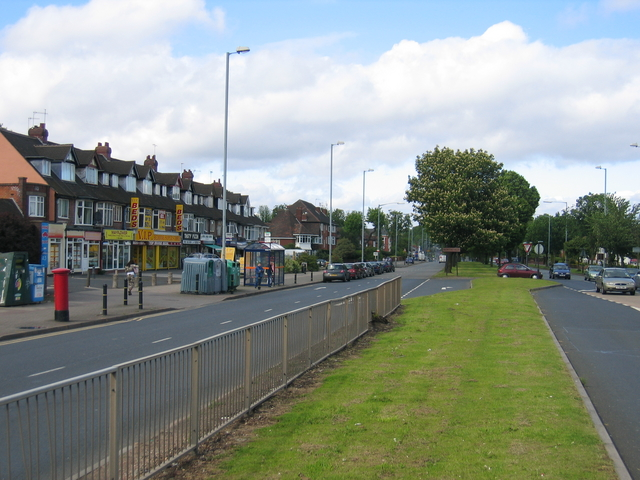 Bristol Road South, Longbridge. Looking into towards Northfield along the central reservation of the Bristol Road at the junction with Tessall Lane. From 1923 to 5th July 1952 this wide central reservation carried the Birmingham trams out to Rednal and Rubery. There are aspirations to right the shortsighted 1950s closure and extend the Midlands Metro along this route.